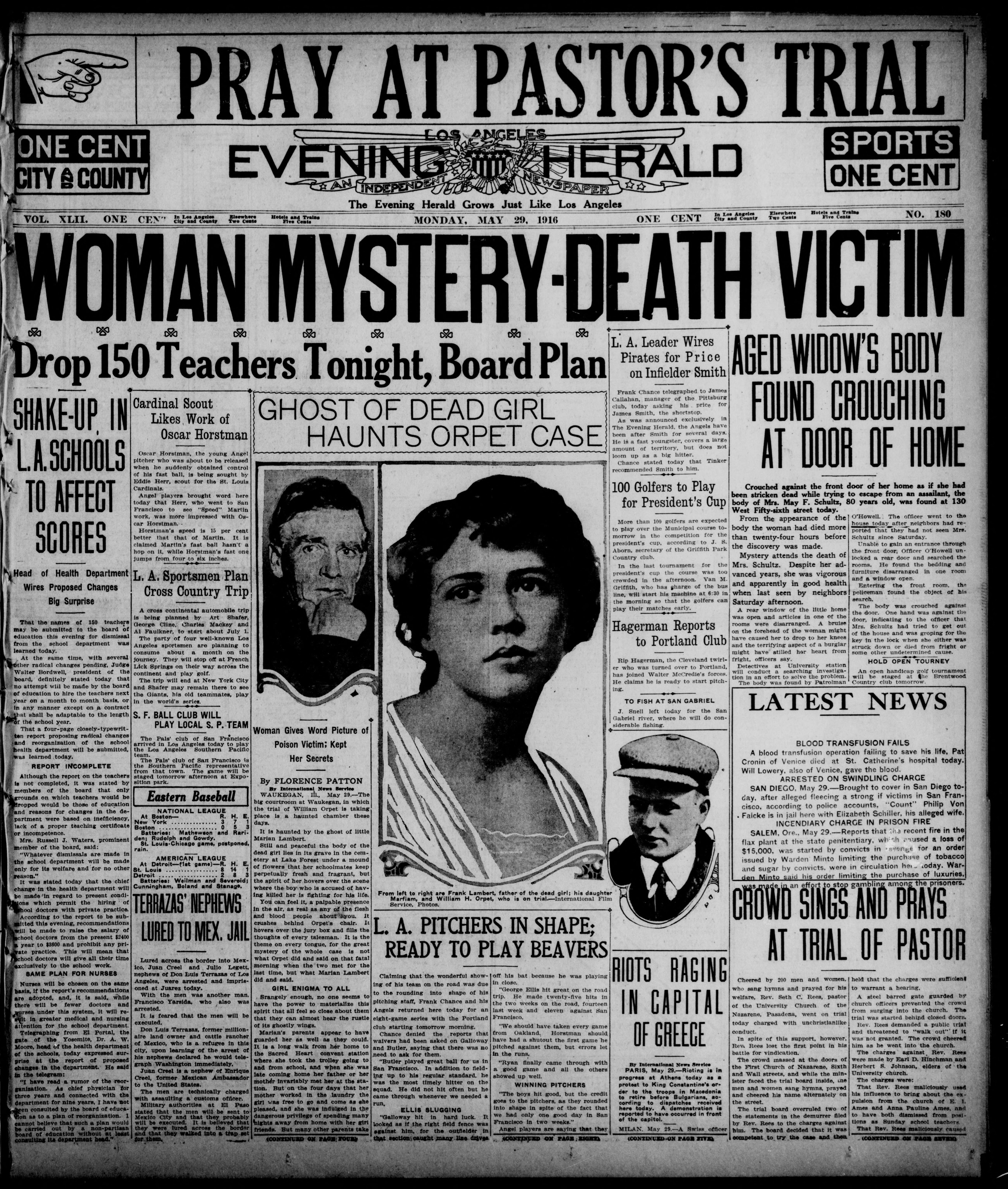 Front page of the Los Angeles Herald, no. 180; May 29, 1916. Featuring "headlinese" like "WOMAN MYSTERY-DEATH VICTIM" and "Drop 150 Teachers Tonight, Board Plan".